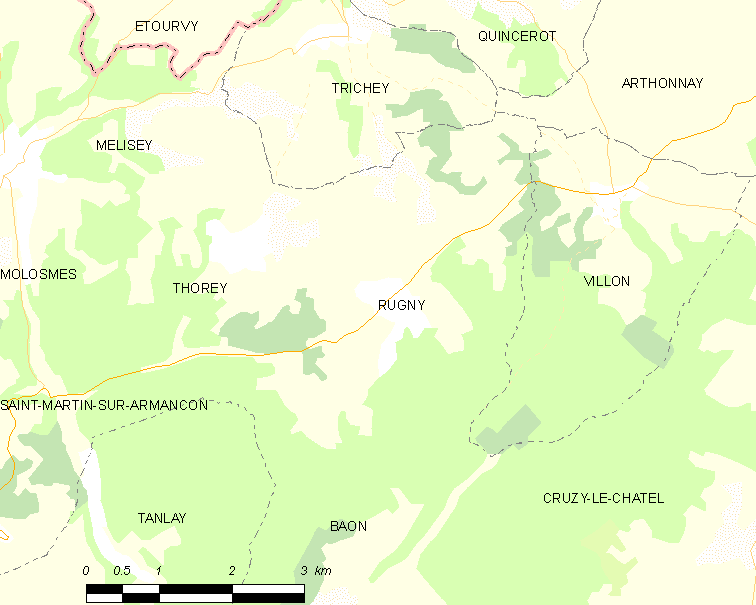 Map of French municipality Rugny